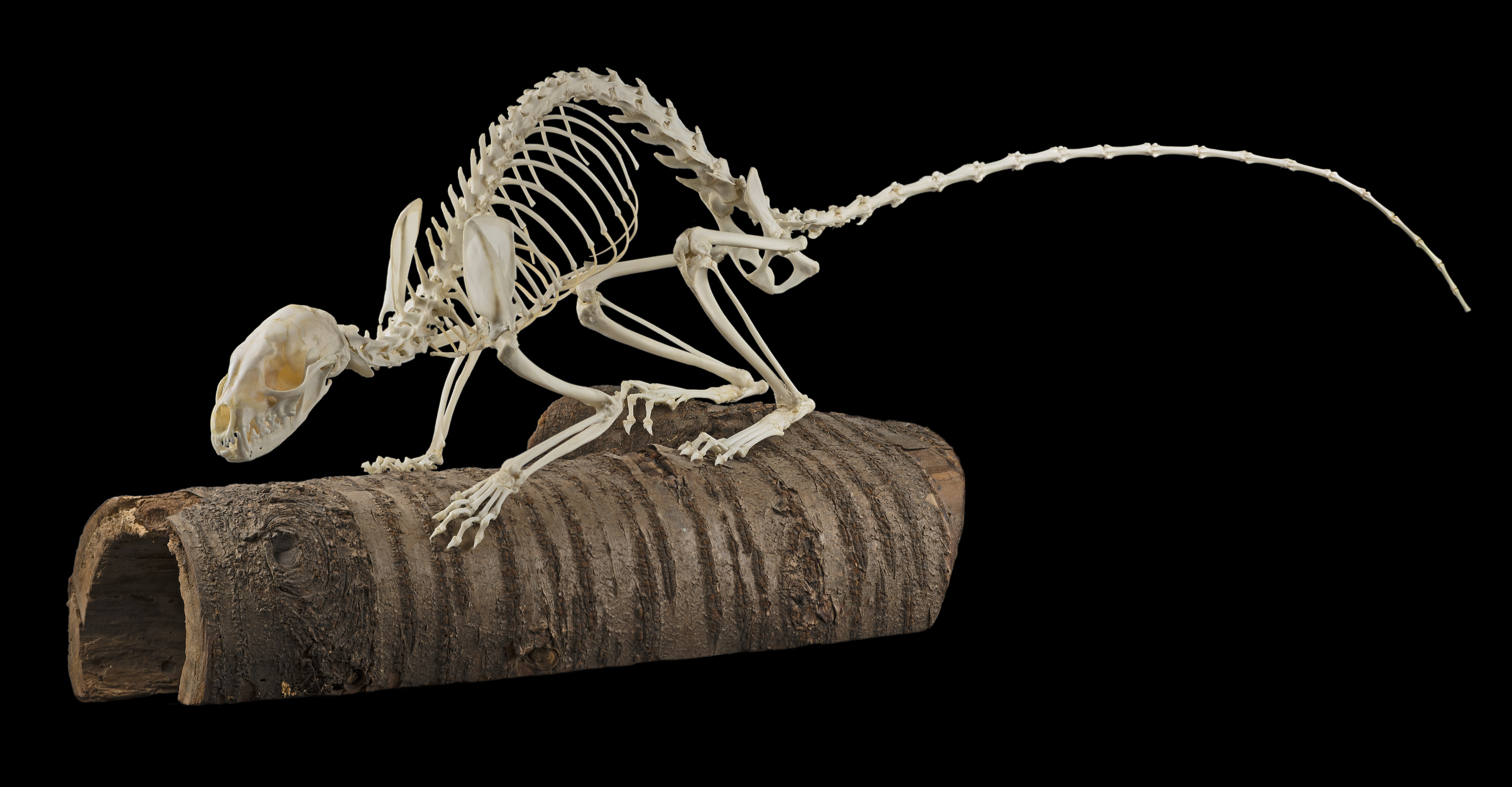 Skeleton of Beech marten.